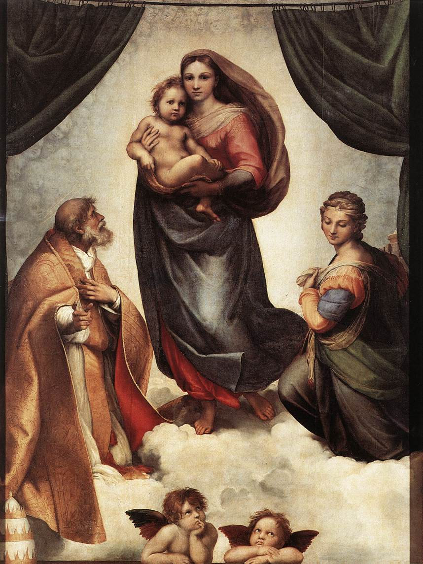 Sistine Madonna